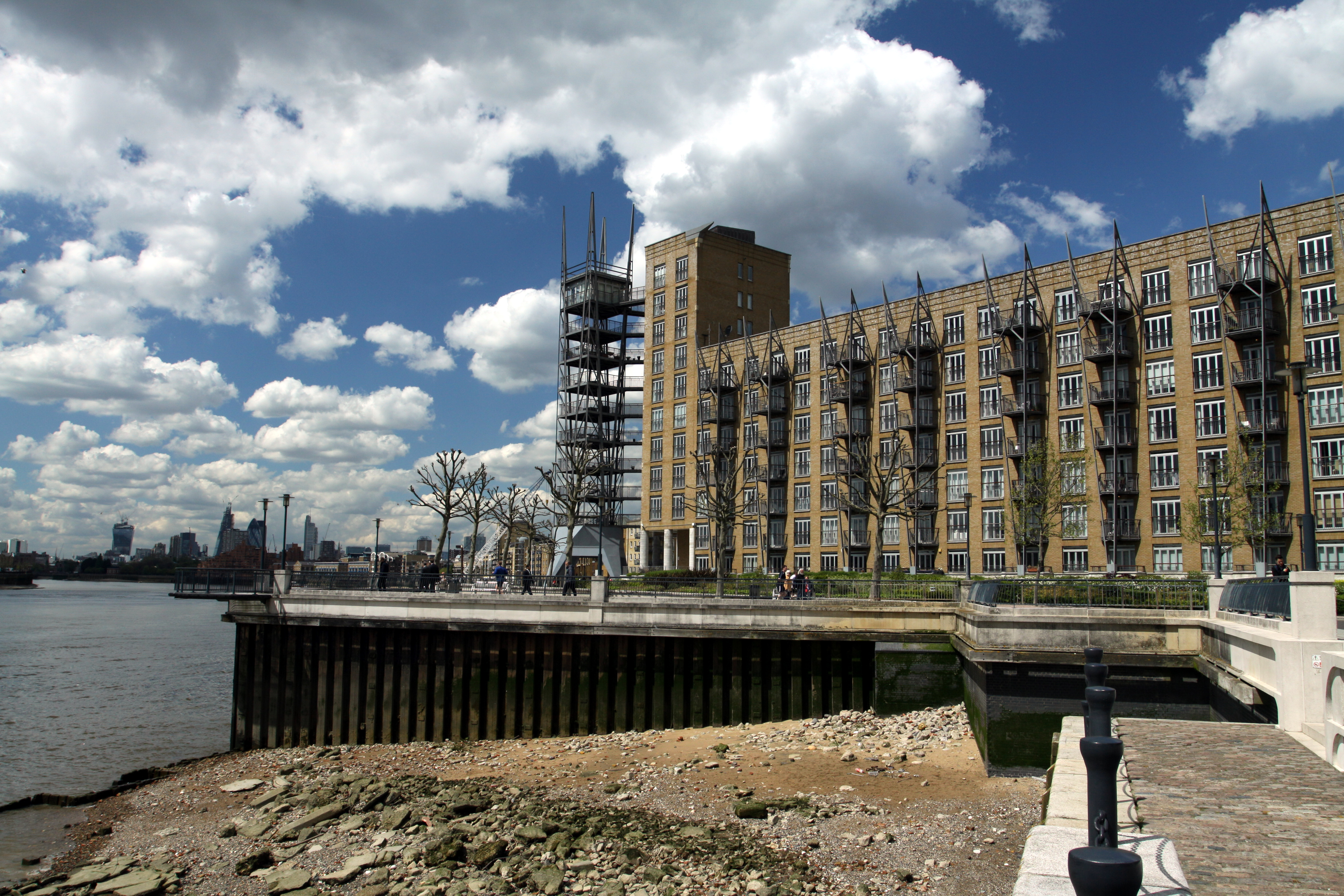 House with tower in Dundee Wharf street during Themes Path in London Borough of Tower Hamlets, London, England, Great Britain The making of this file was supported by Wikimedia UK.